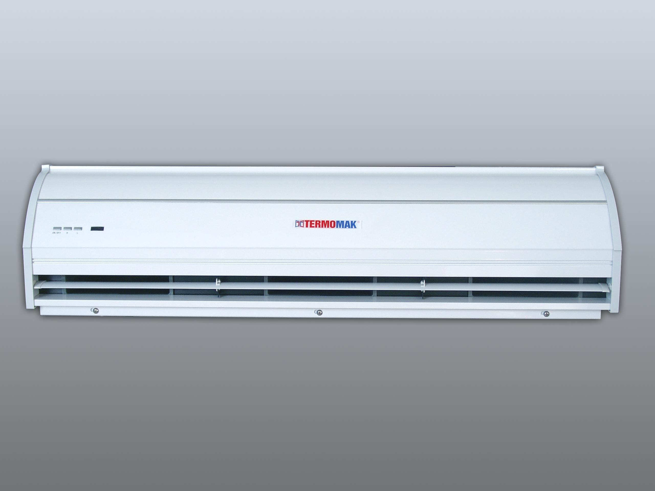 hava perdesi - air curtain